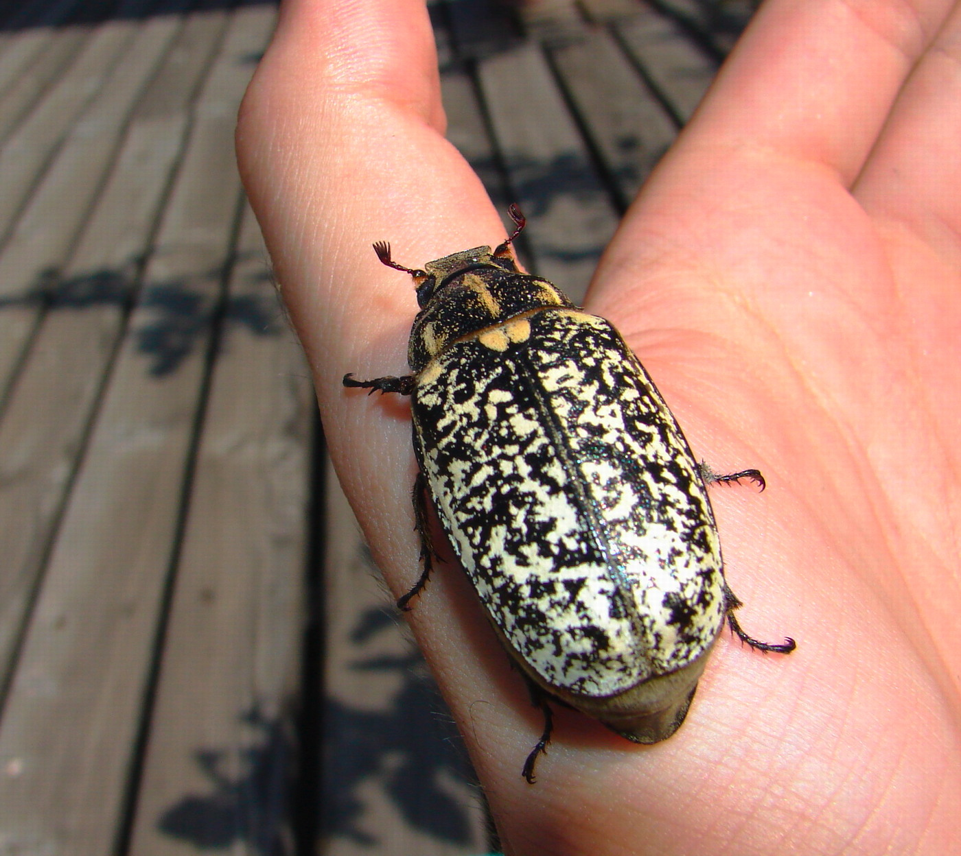 A female individual of Polyphylla fullo (no english article yet), about 3.5 cm long. Found in Bolzano, Italy.